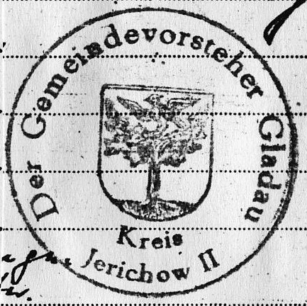 Seal of Gladau, Germany